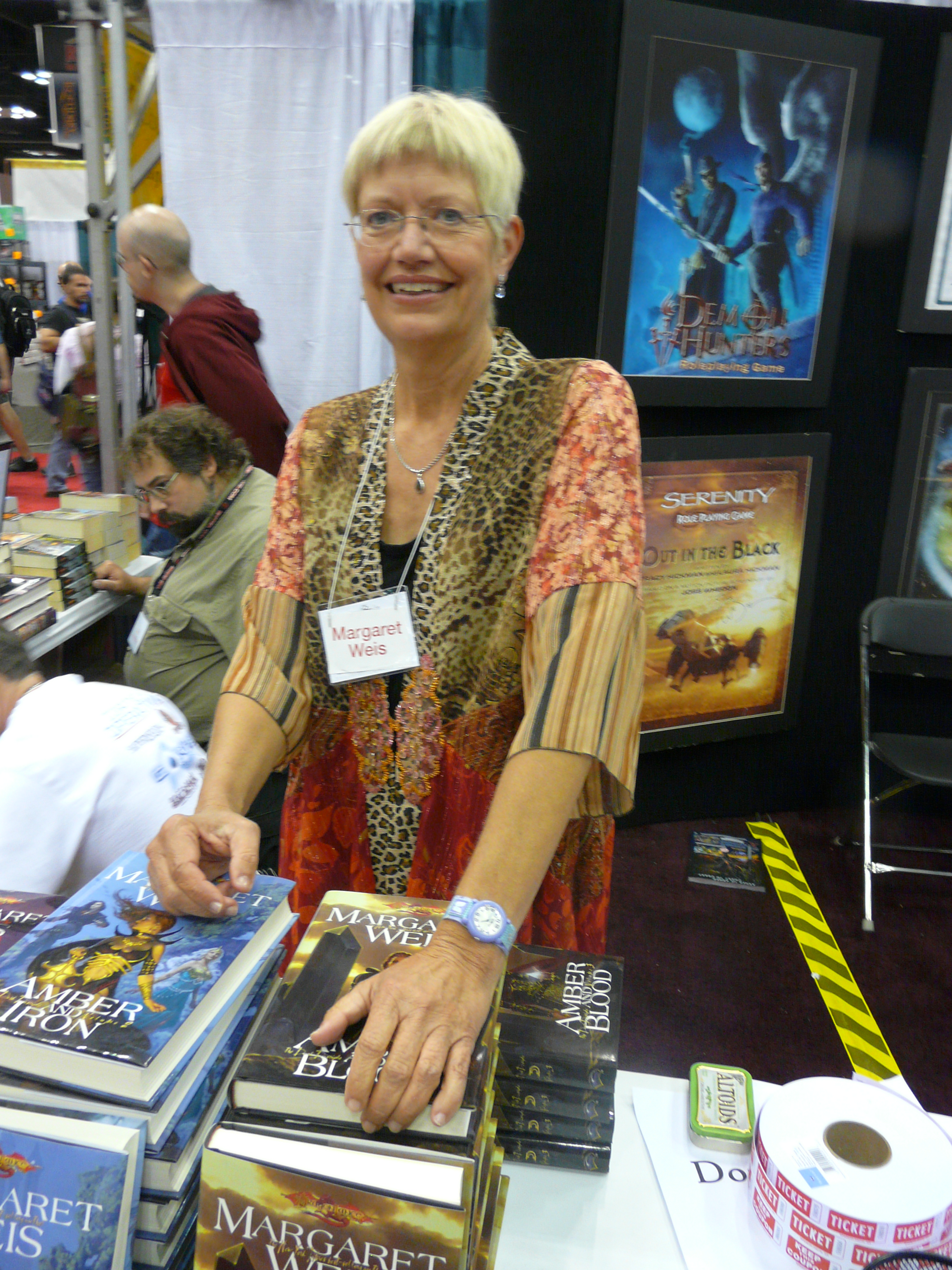 Picture of Gen Con Indy 2008 in Indianapolis, Indiana, USA.